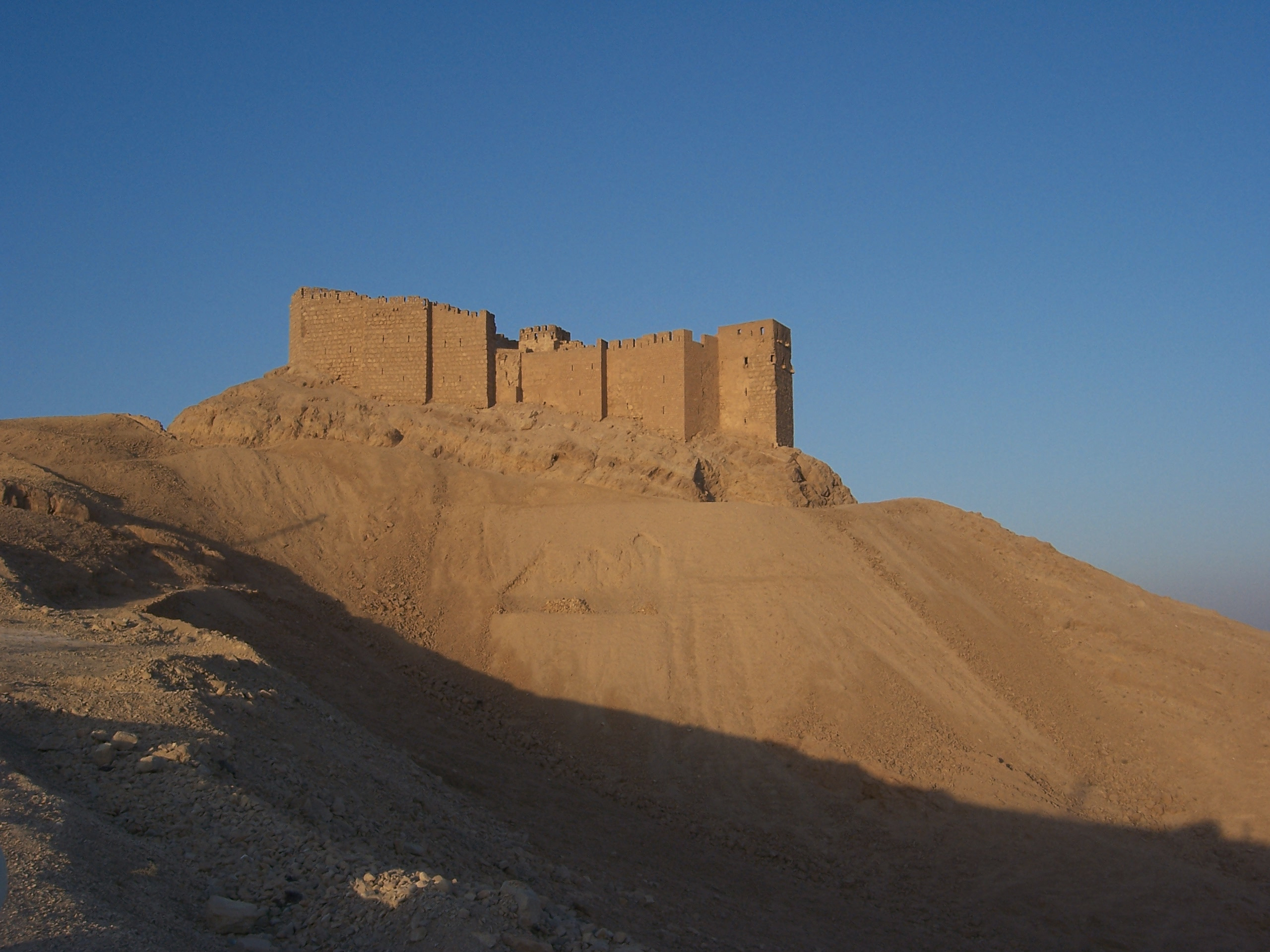 Palmyra (/ˌpælˈmaɪərə/; Arabic: تدمر; Tadmur; Aramaic: ܬܕܡܘܪܬܐ; Hebrew: תַּדְמוֹר, Modern Tadmor Tiberian Taḏmôr; Ancient Greek: Παλμύρα) was an ancient Aramaic city in central Syria. In antiquity, it was an important city located in an oasis 215 km (134 mi) northeast of Damascus and 180 km (110 mi) southwest of the Euphrates at Deir ez-Zor. It had long been a vital caravan stop for travellers crossing the Syrian desert and was known as the Bride of the Desert. The earliest documented reference to the city by its Semitic name Tadmor, Tadmur or Tudmur (which means "the town that repels" in Amorite and "the indomitable town" in Aramaic) is recorded in Babylonian tablets found in Mari.